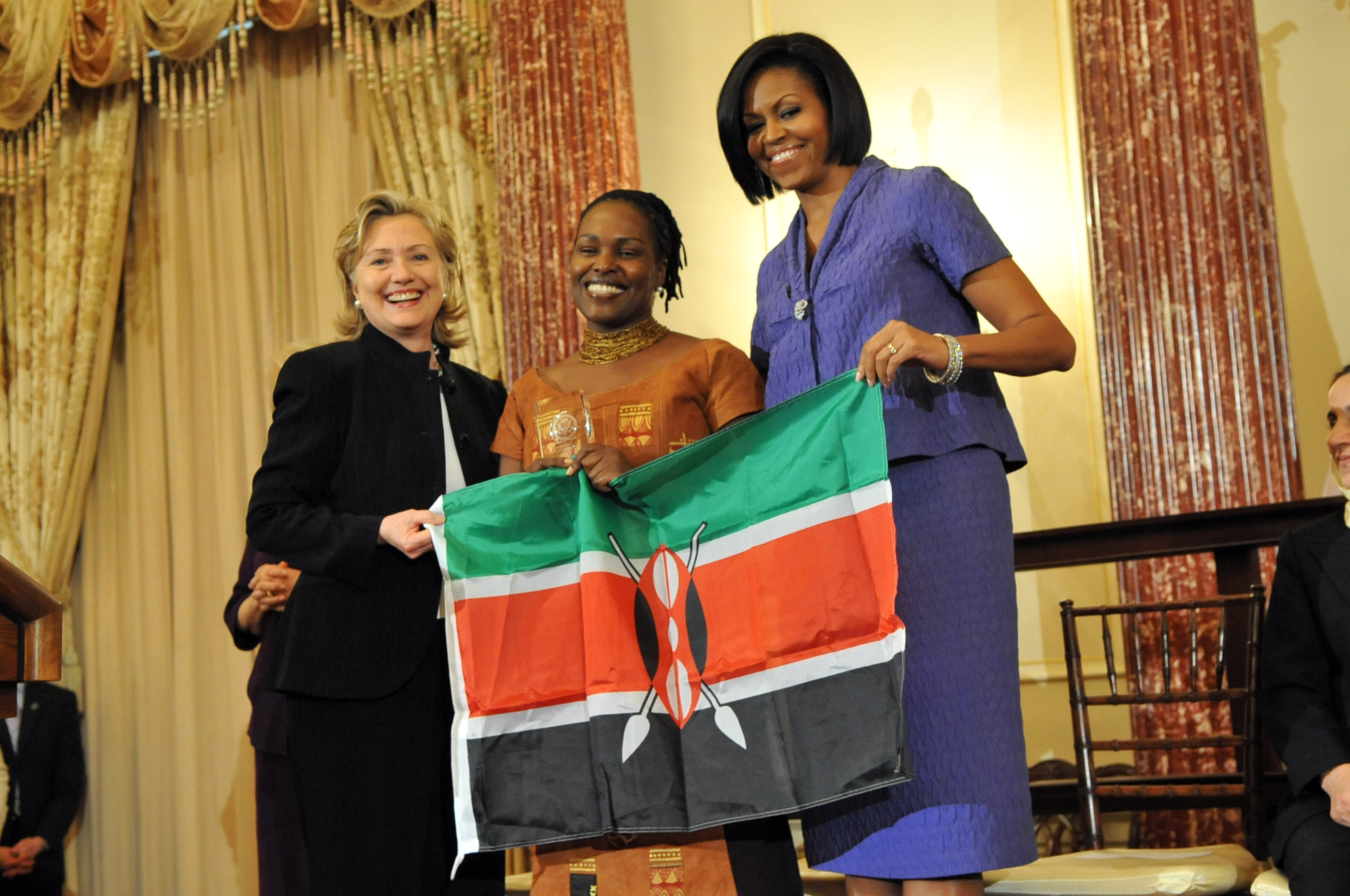 U.S. Secretary of State Hillary Clinton and First Lady Michelle Obama stand with Honoree Ann Njogu of Kenya at the 2010 International Women of Courage Awards at the U.S. Department of State, Washington, D.C. March 10, 2010. [State Department Photo/Public Domain] 2010 International Women of Courage Awards